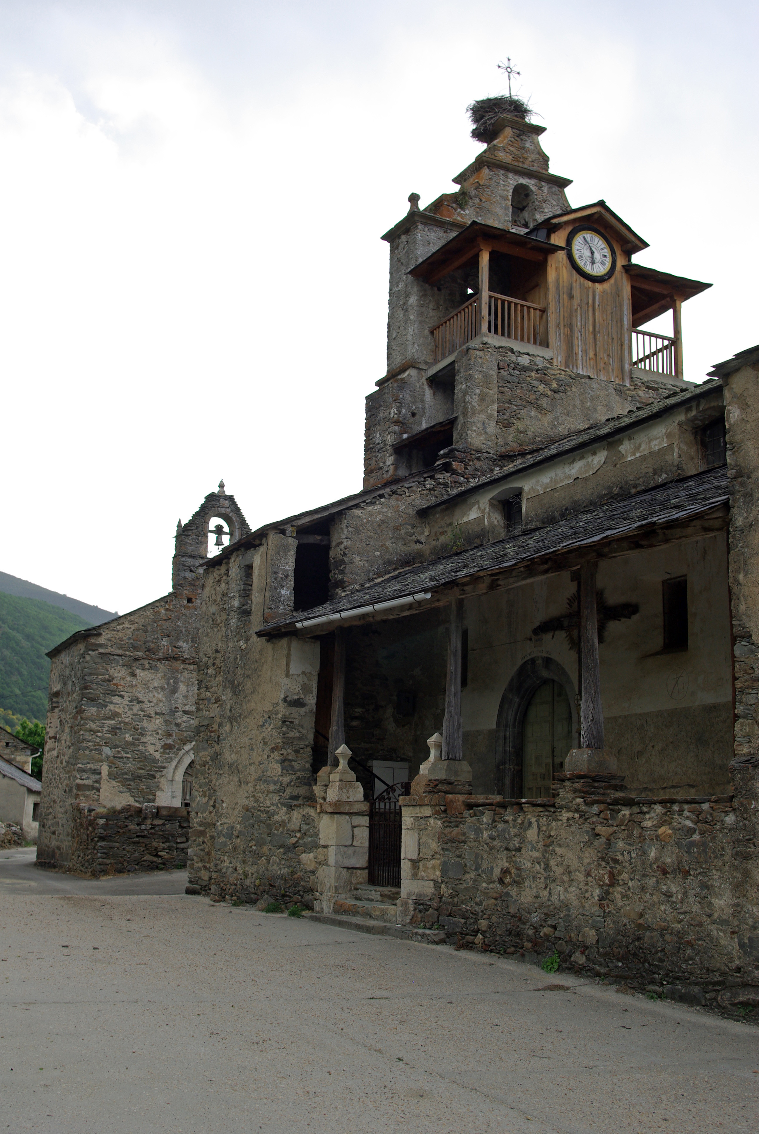 Church in Barrio de la Puente (Murias de Paredes, León, Spain)